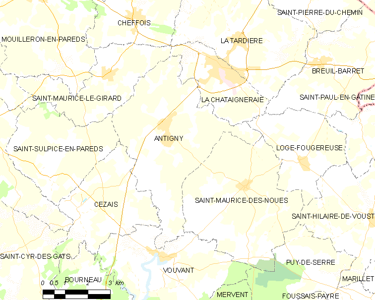 Map of French municipality Antigny